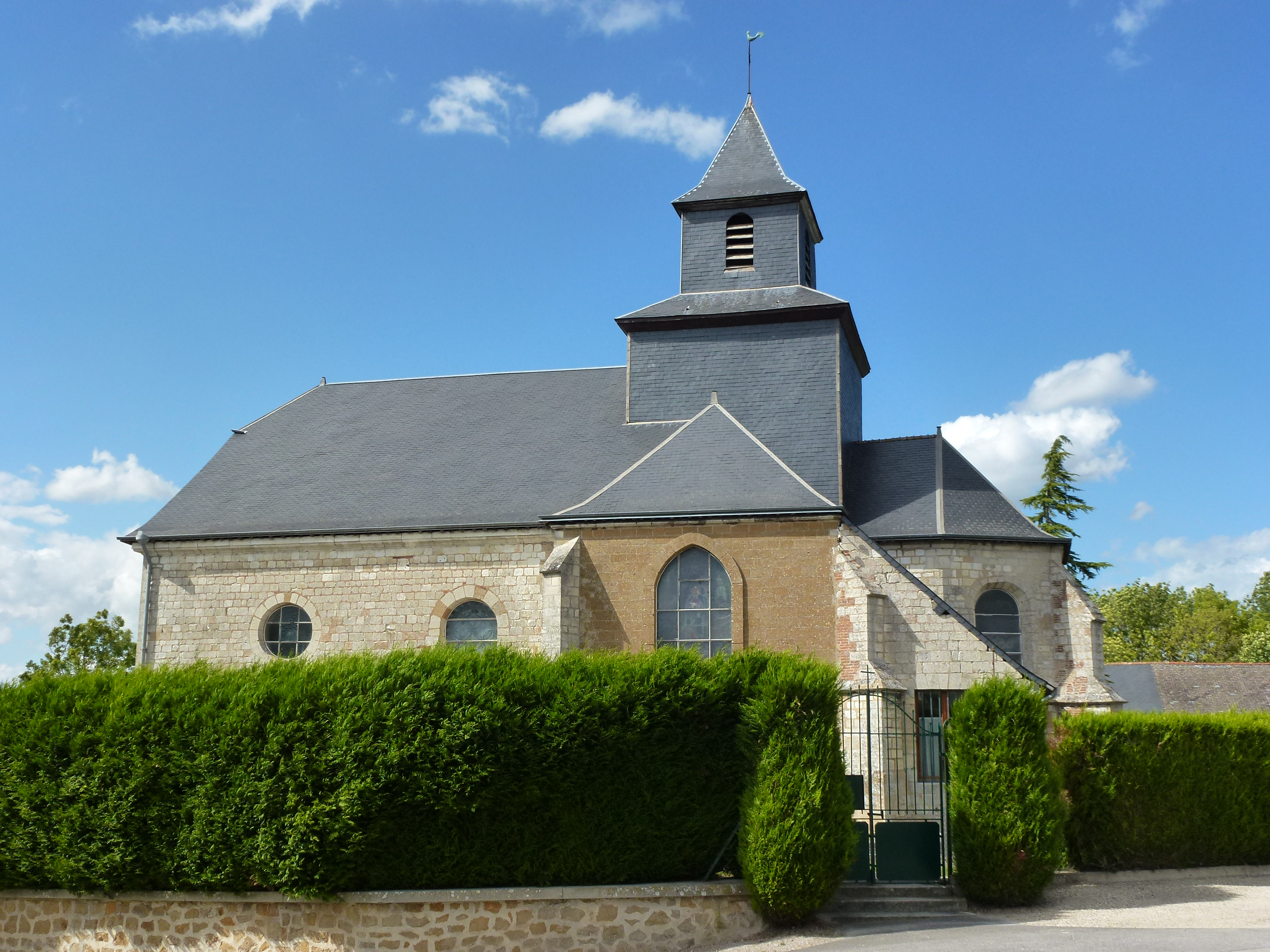 Arnicourt (Ardennes) église